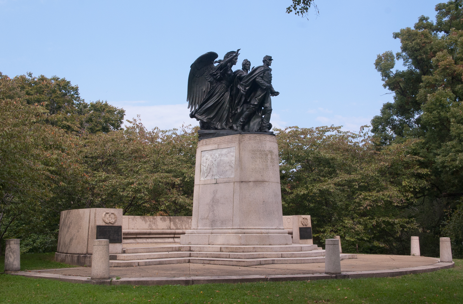 Union Soldiers and Soldiers Monument in Baltimore, Maryland (1909), designed by the architect Albert Randolf Ross with sculpture by Adolph Alexander Weinman.